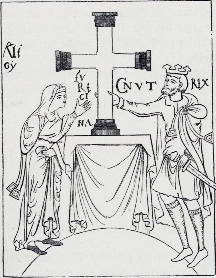 Cnut the Great and Emma of Normandy in an Anglo-Saxon depiction.